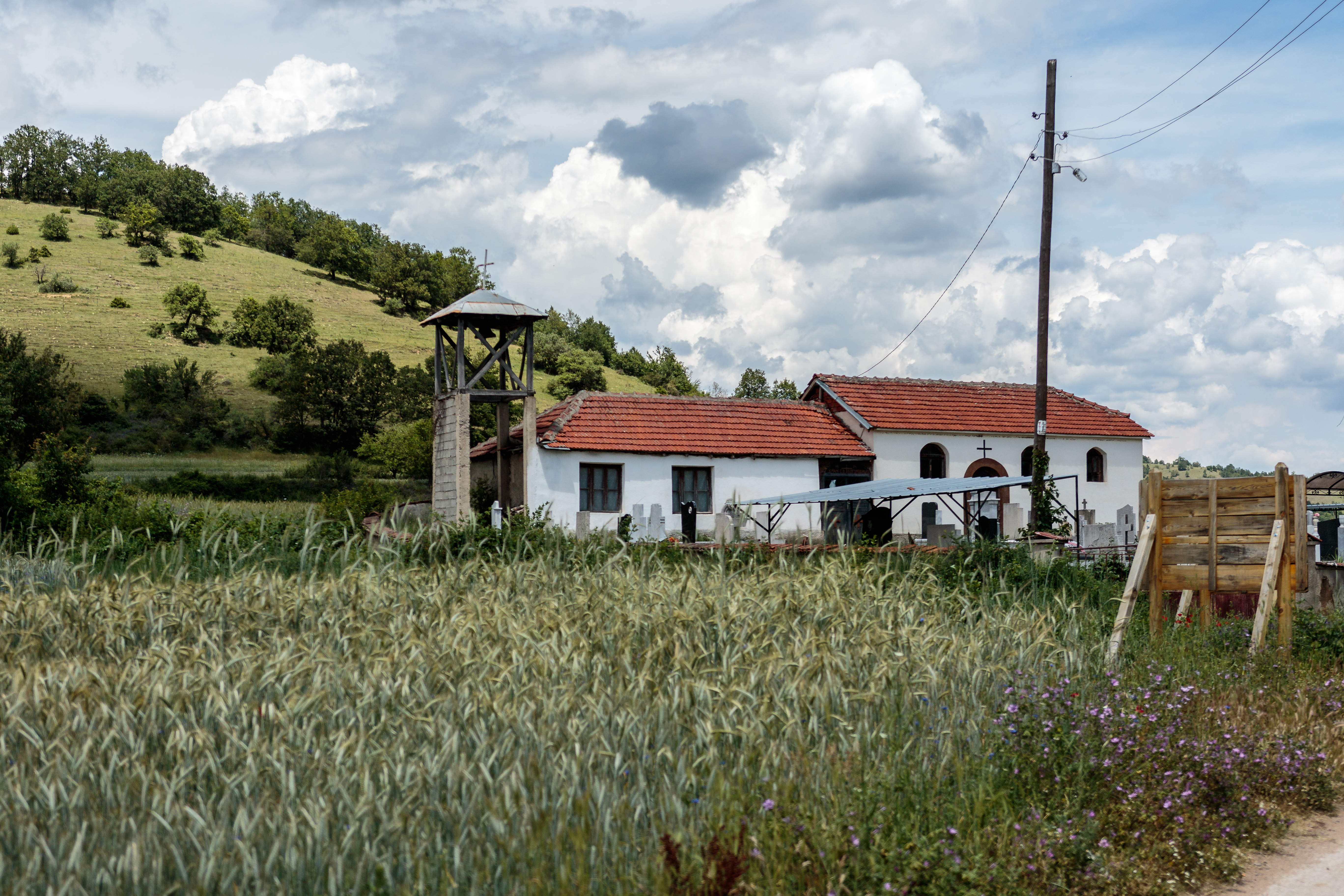 Church in the village Obednik